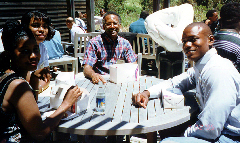 Dr. Dawn Lott-Crumpler, Kimberley Flagg, Dr. Donald King, Otis Jennings At the Conference for African American Researchers in the Mathematical Sciences (CAARMS), Mathematical Sciences Research Institute (MSRI), Berkeley, California in June 1995.